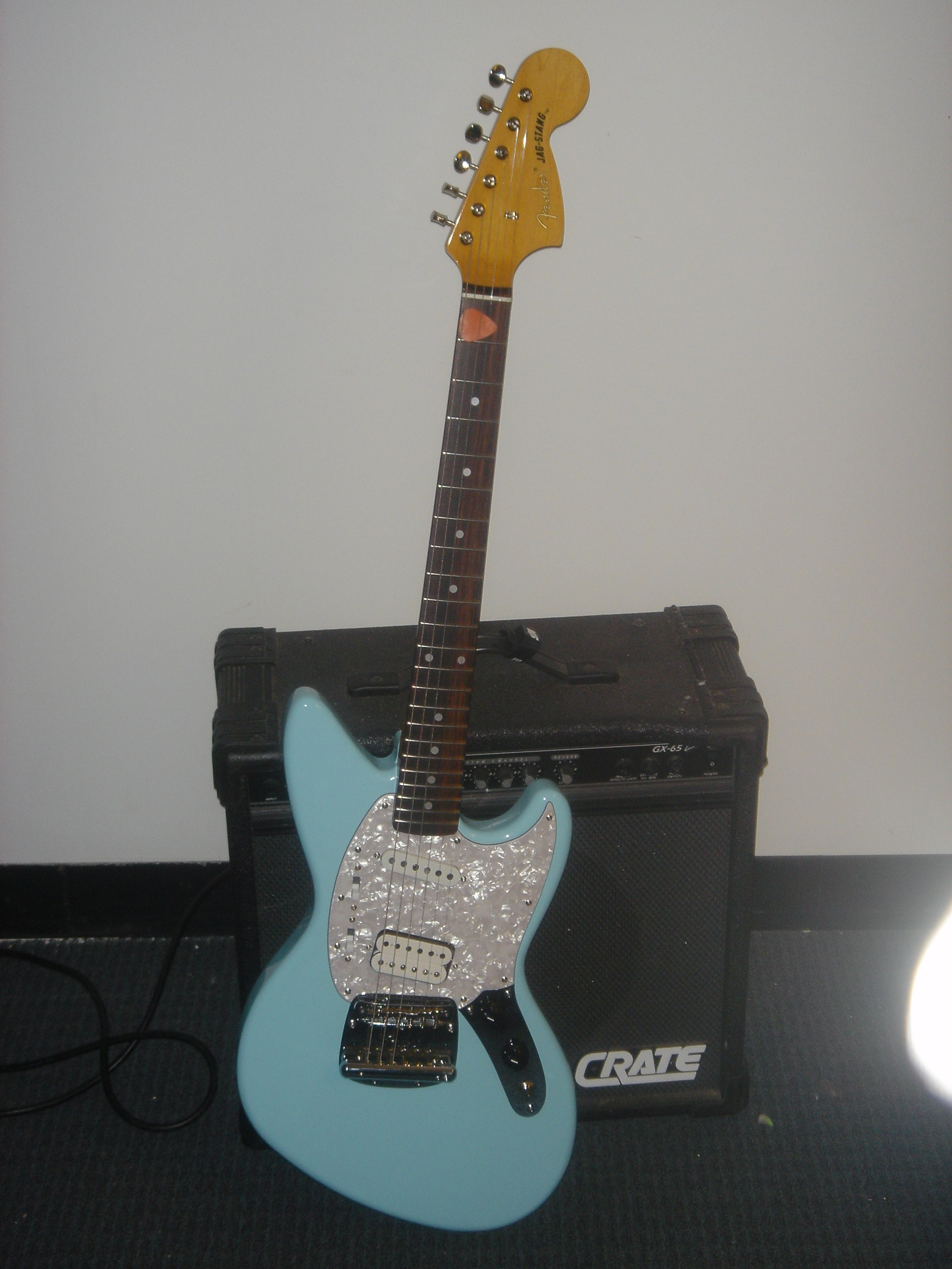 Fender Jag-Stang (mix between a Jaguar and a Mustang). Model designed by Kurt Cobain.